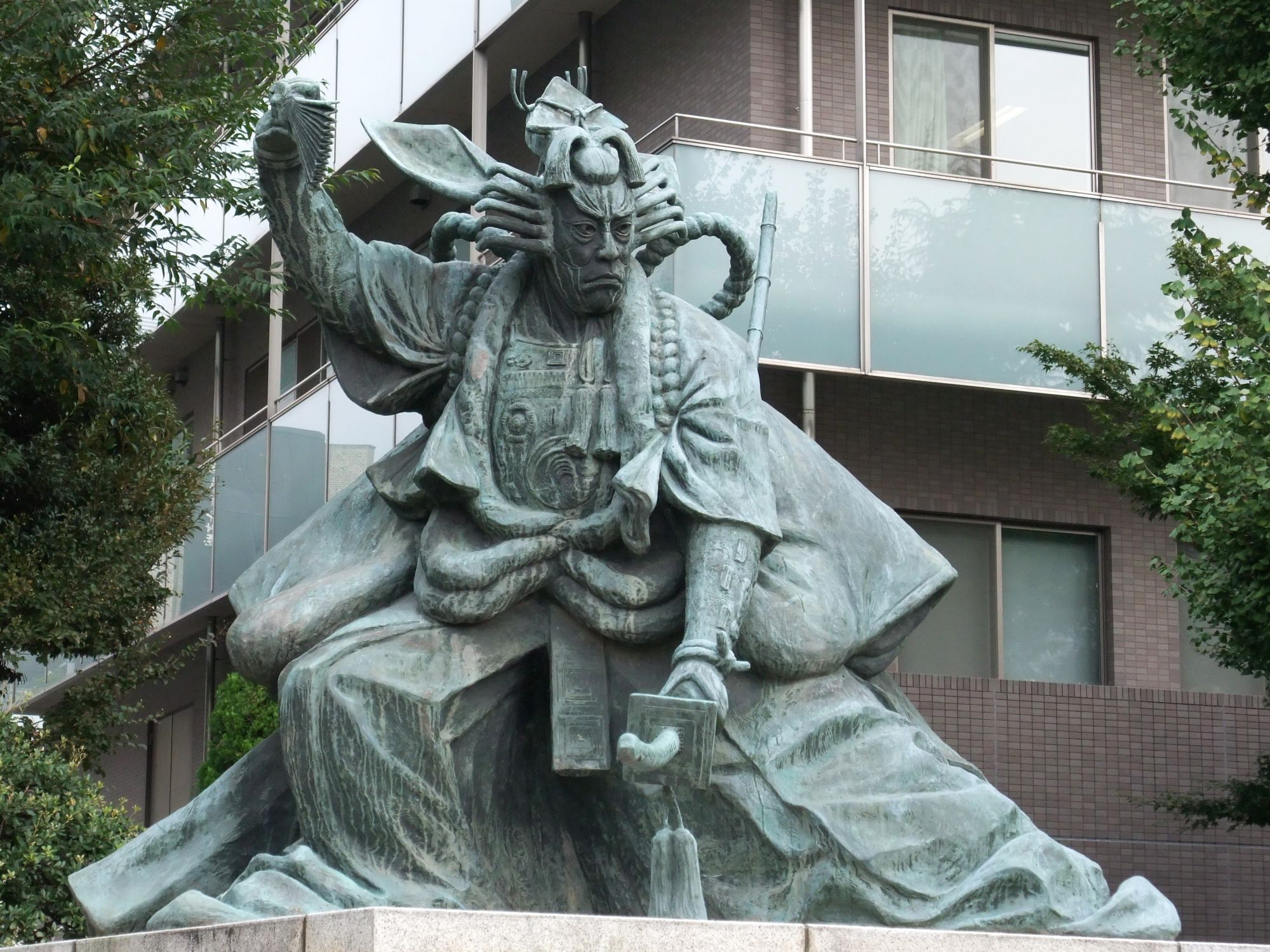 Statue of Danjūrō Ichikawa IX (1838-1903) as Kamakura Gongorō in the kabuki play Shibaraku, Sensō-ji, Tokyo.